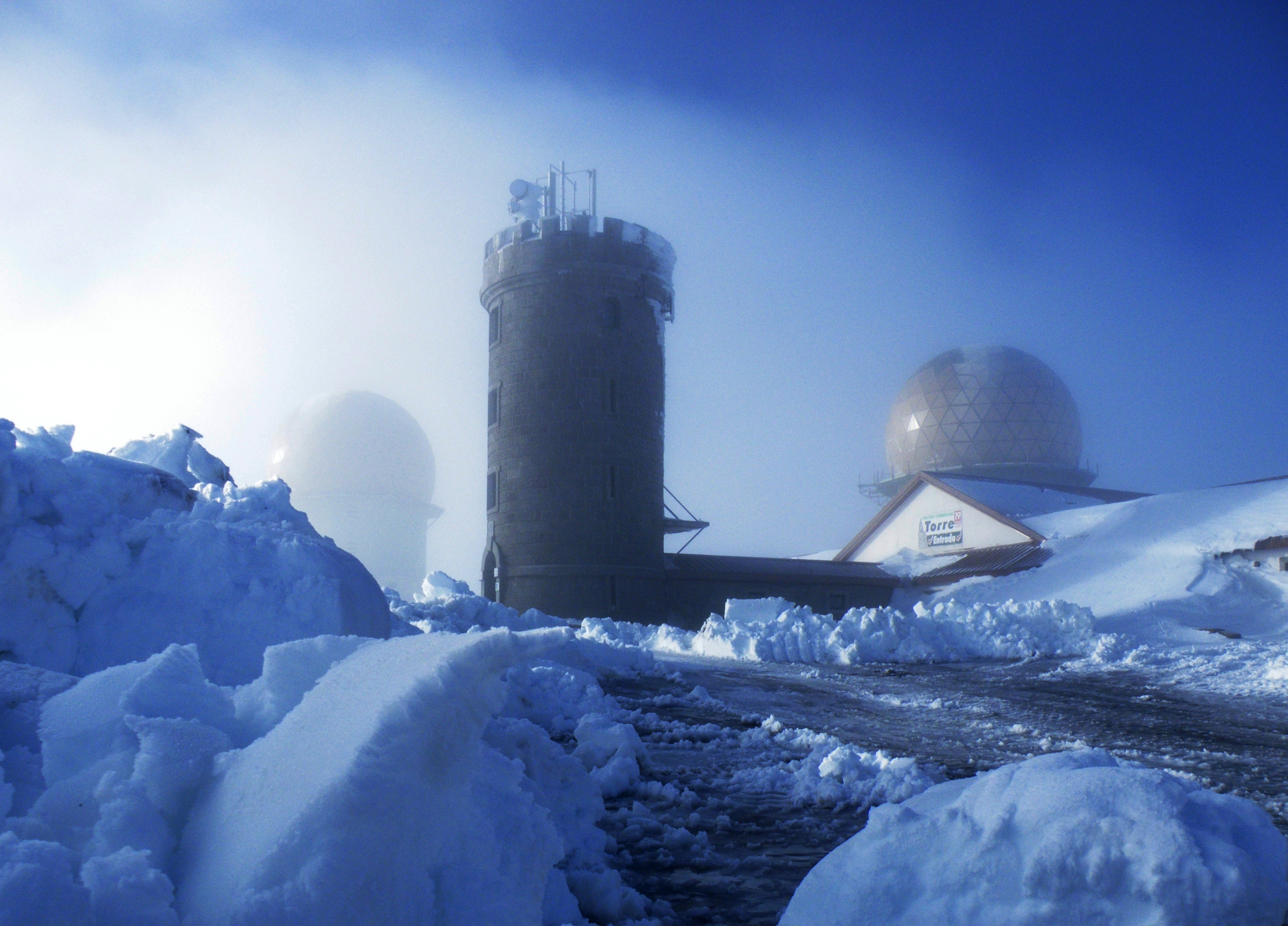 Tower built by King Joao of Portugal to reach 2000m height